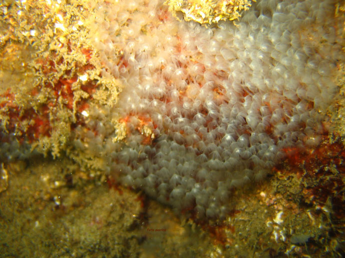 Phoronis hippocrepis photographed in shallow water in Italy. Photo by Maria Grazia Montanucci.